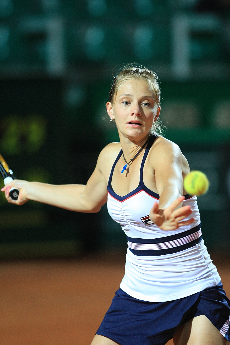 Anna Chakvetadze - Rome 2009